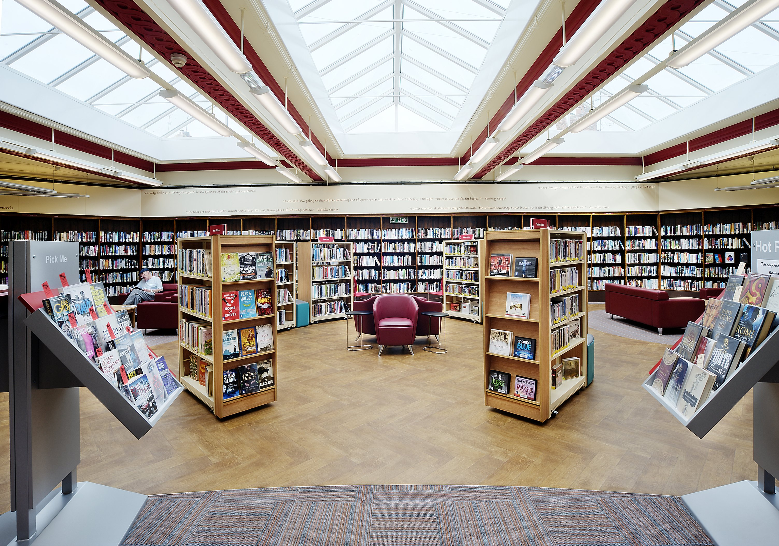 Barrow Library is managed by Cumbria libraries. More information can be found: Photo credit: Cumbria County Council